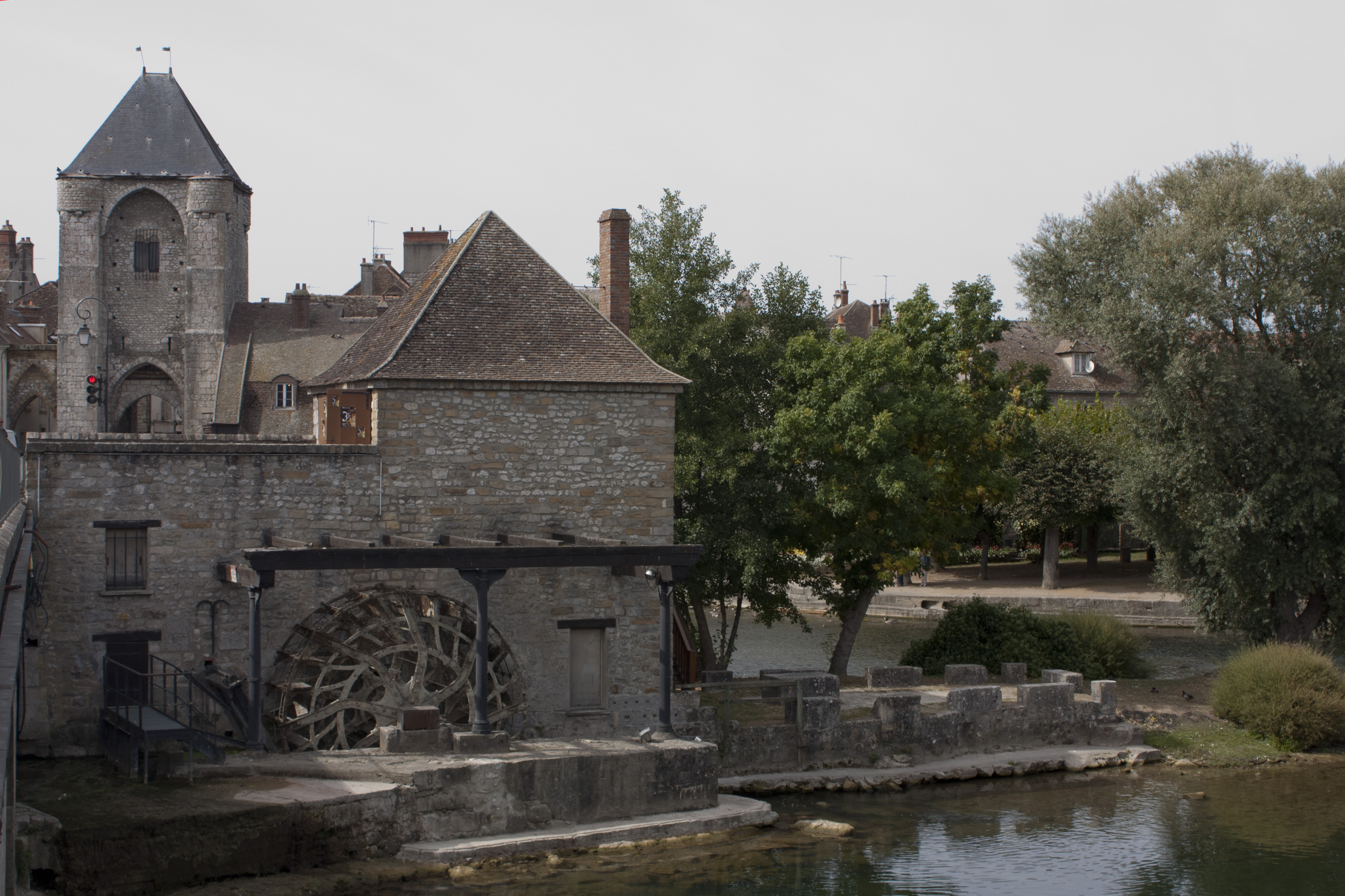 Tanbark watermill.